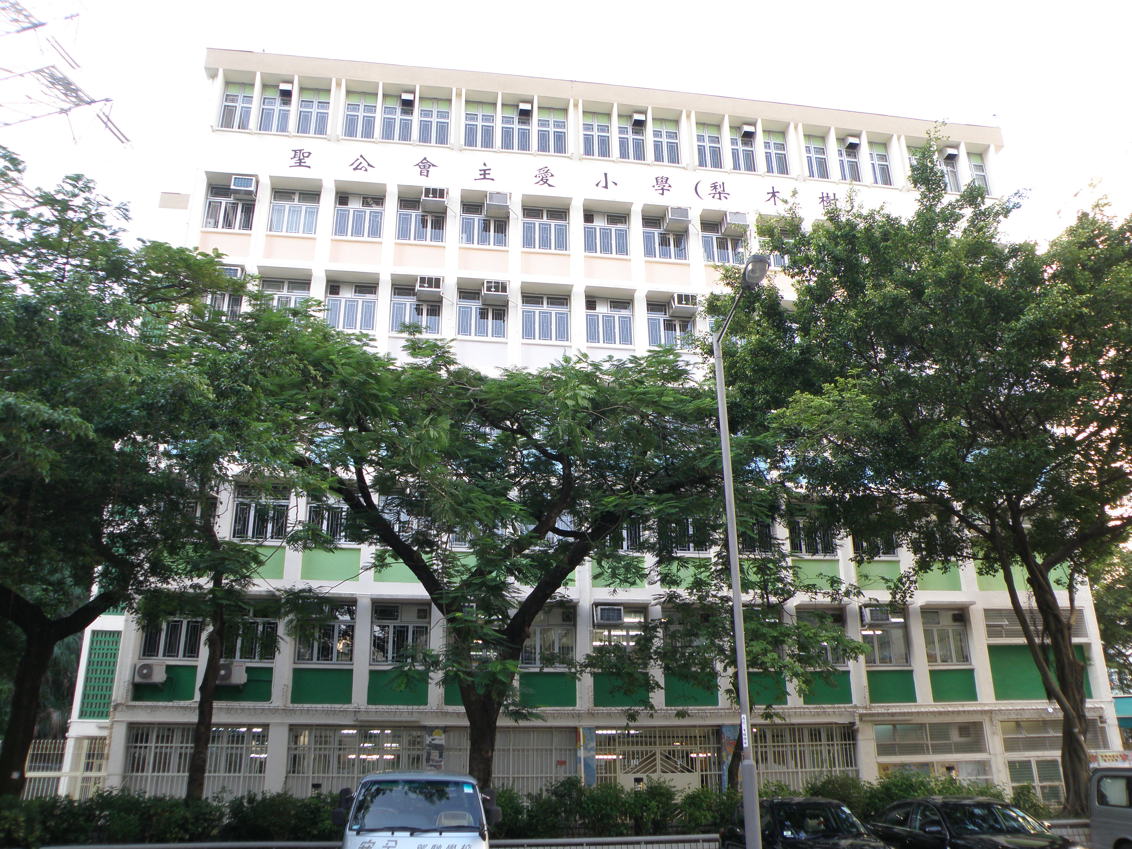 S.K.H. Chu Oi Primary School (Lei Muk Shue), Kwai Chung, Hong Kong.